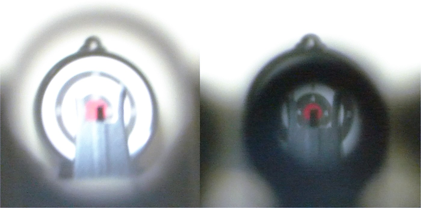 Example of impact of apterture diameter on brightness and depth of field. Pictures taken through large and small apertures of AR-15 type carbine airsoft gun under same conditions. Distance between front and rear sights 13", distance from camera to rear sight, about 2", distance to target, about 6'. Camera was focused on front sight.